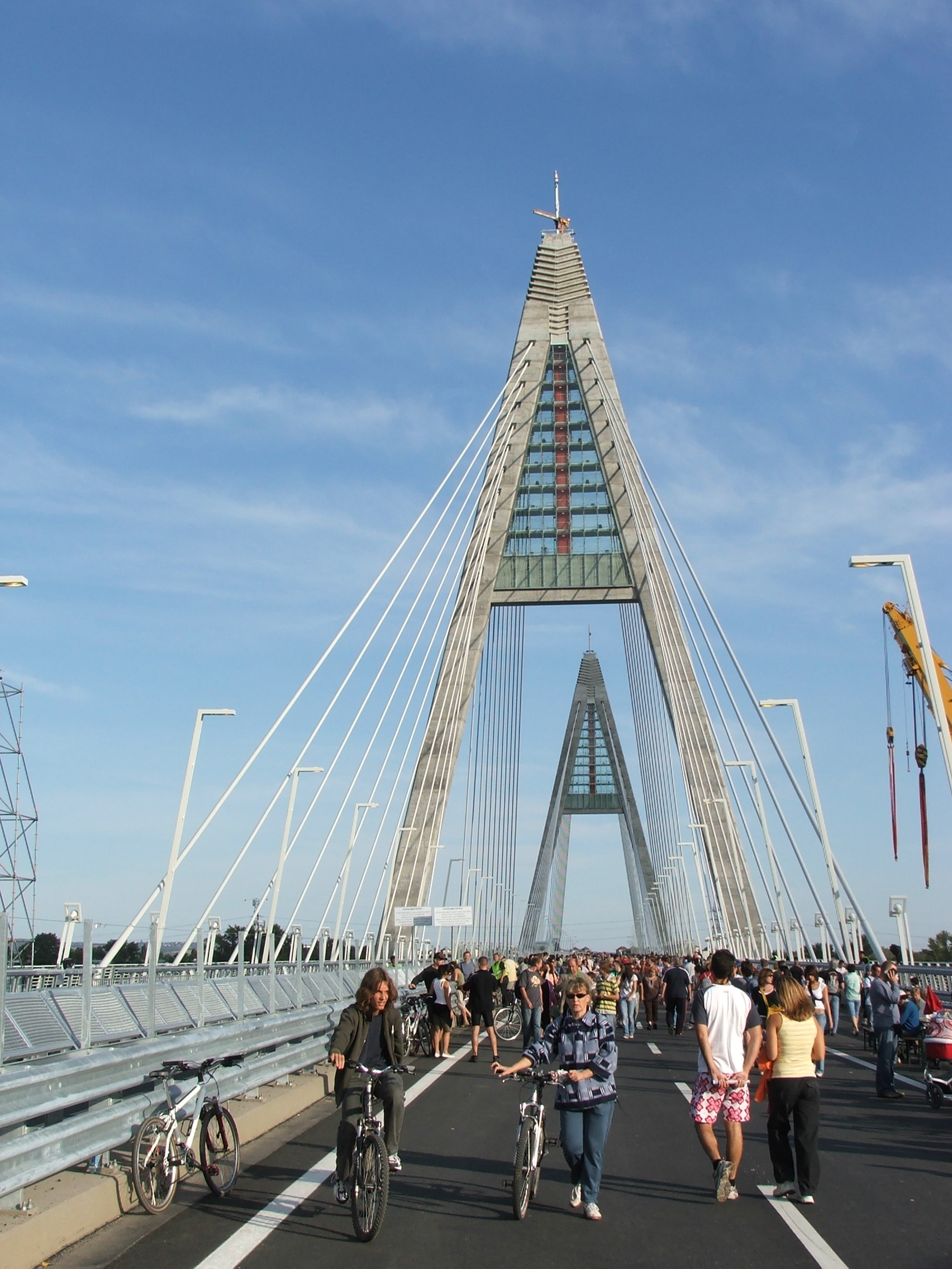 Megyeri bridge (before opening), Budapest, Hungary